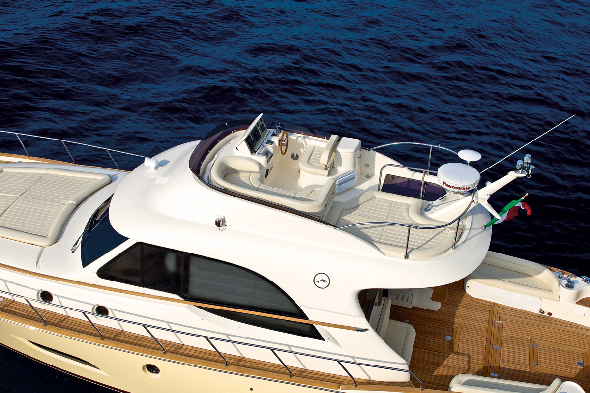 a picture of a Mochi Craft yacht, the Dolphin 54' flybridge